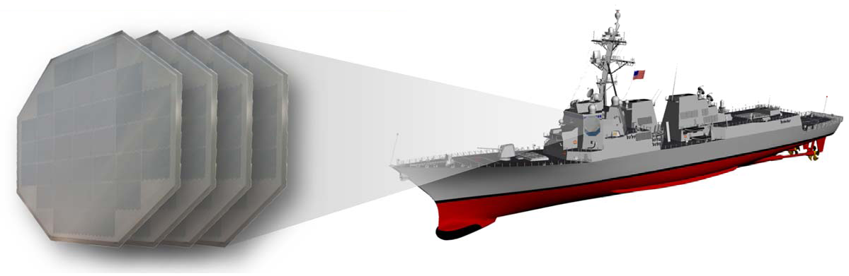 DDG 124 with AMDR antenna array highlighted